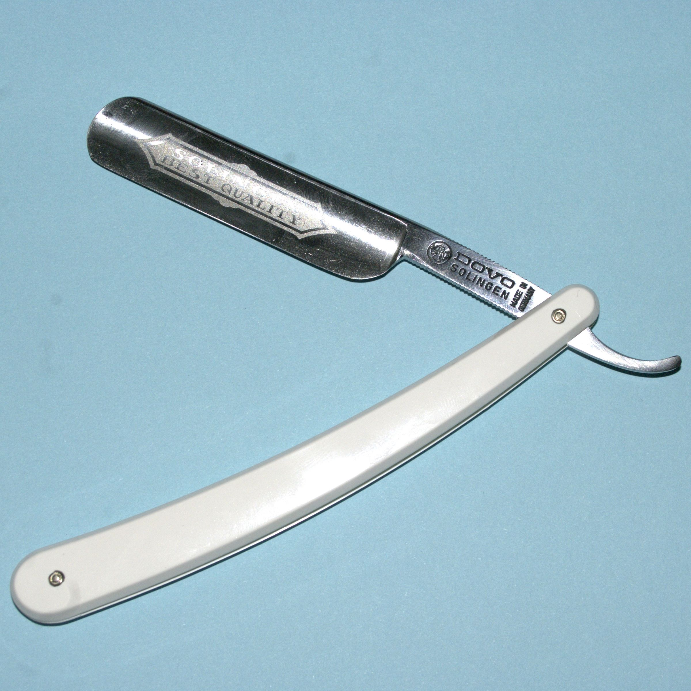 Photograph of a traditional straight-razor made by »DOVO« of Germany.